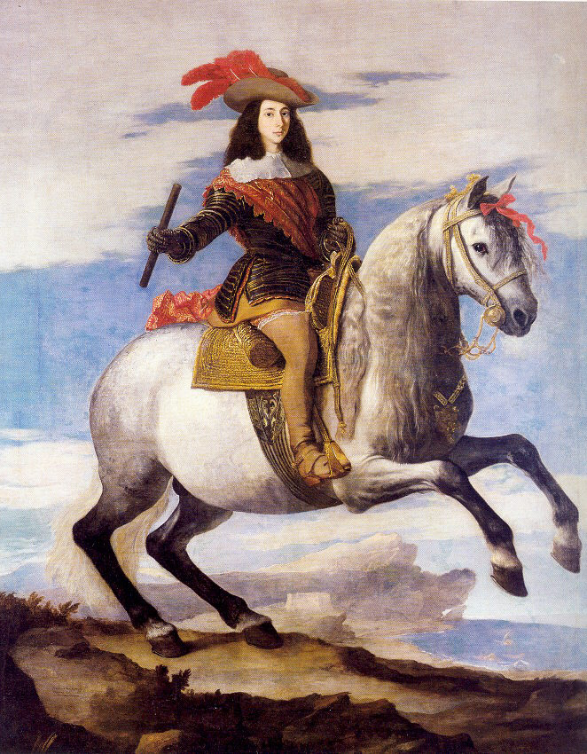 Juan José de Austria con banda de general